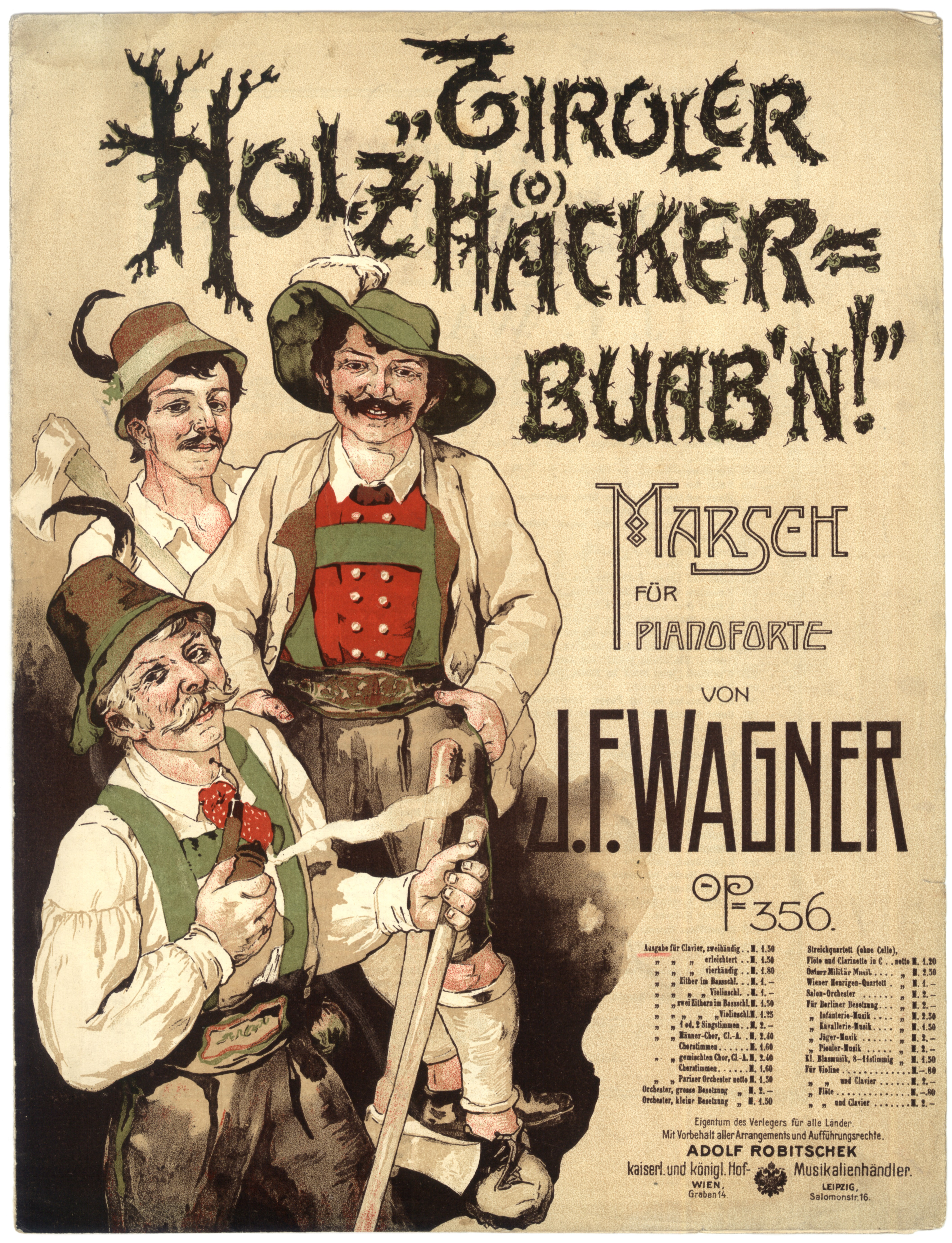 Josef Franz Wagner (1856-1908) "Tiroler Holzhacker-Buab'n". Marsch op. 356. sheetmusic, Pft/2m. Publisher Adolf Robitschek, Vienna.